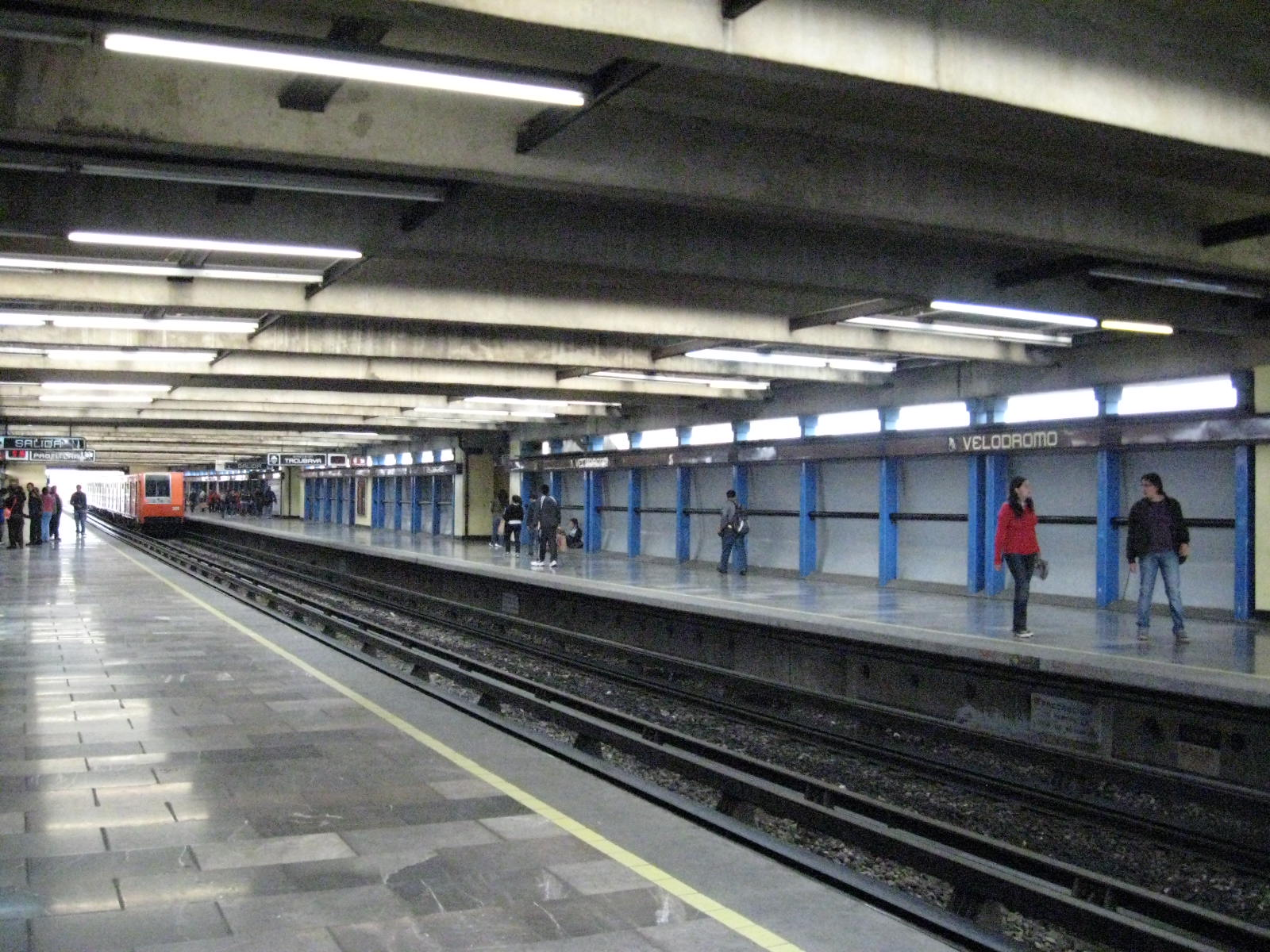 View of the eastbound platform of Metro station Velòdromo on Line 9 of the Mexico City Metro system